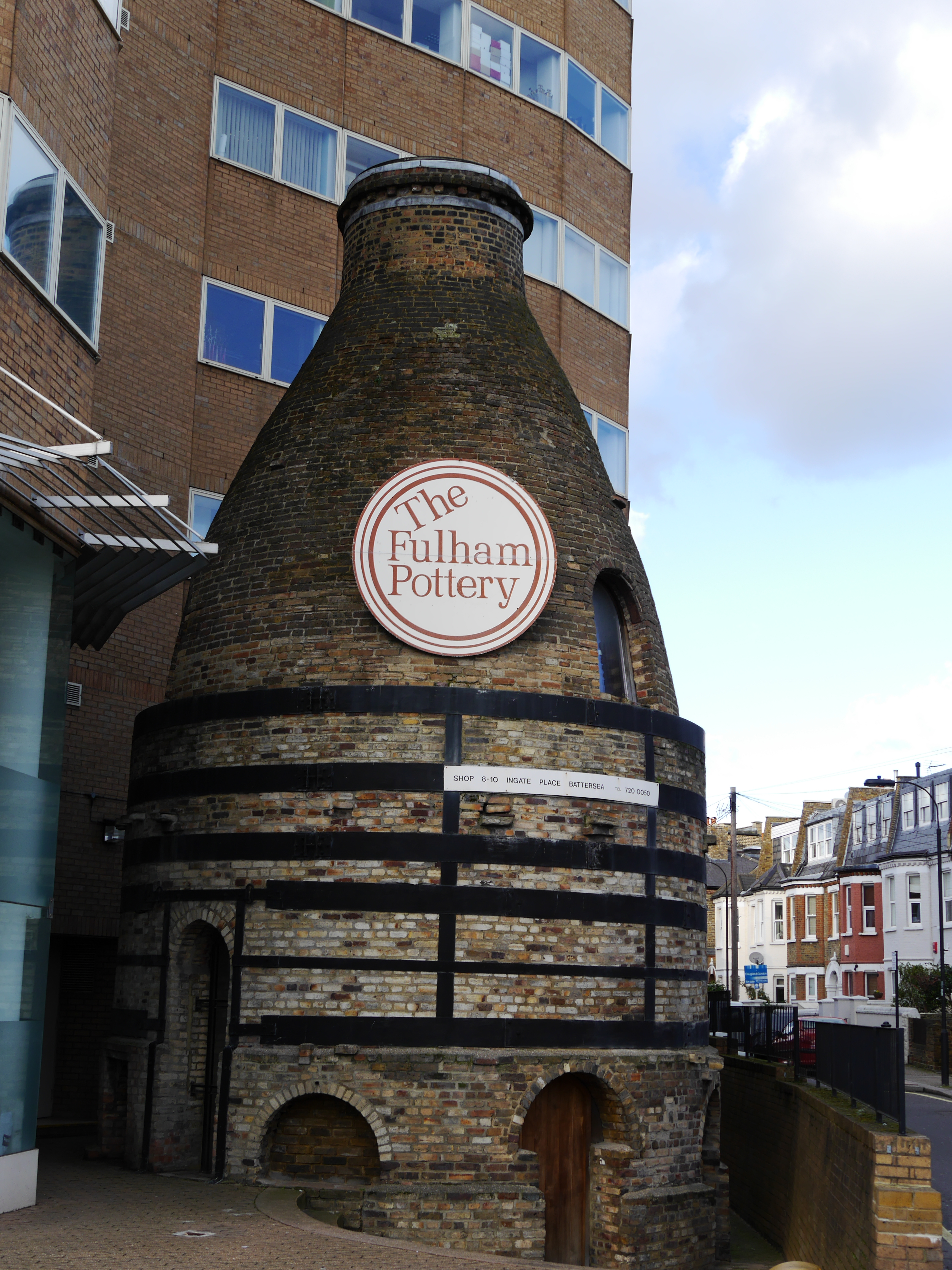 Fulham Pottery, 11 January 2014